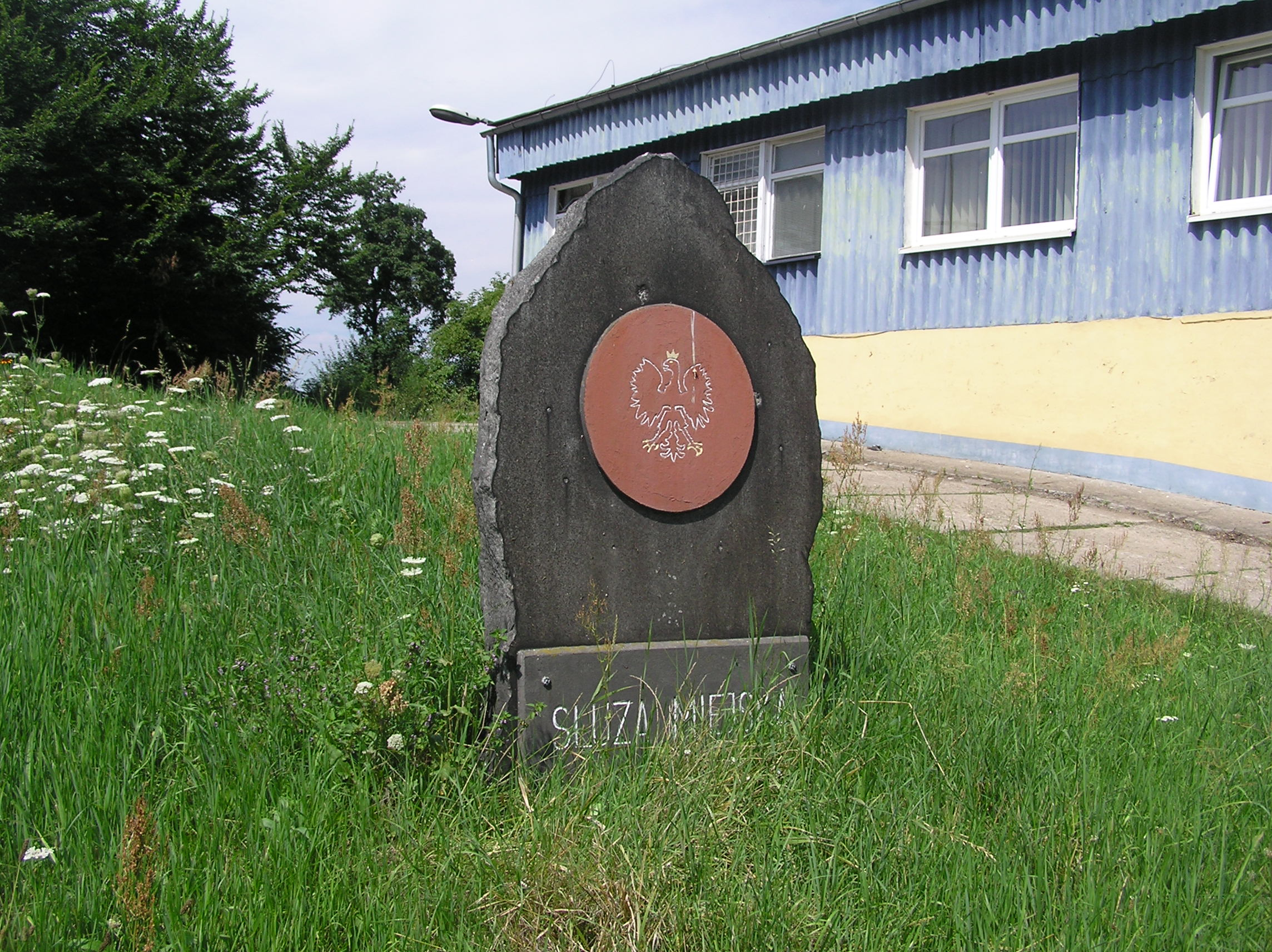 Wrocław, Oder River, trail side Oder waterway (european waterway E-30), Miejski Canal, Miejska Lock